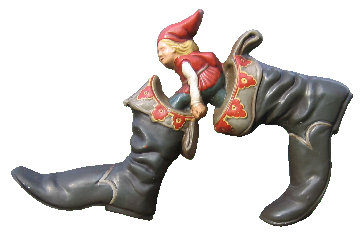 Seven-league boots, part of a trash bin sign in the Dutch amusement parc Efteling.